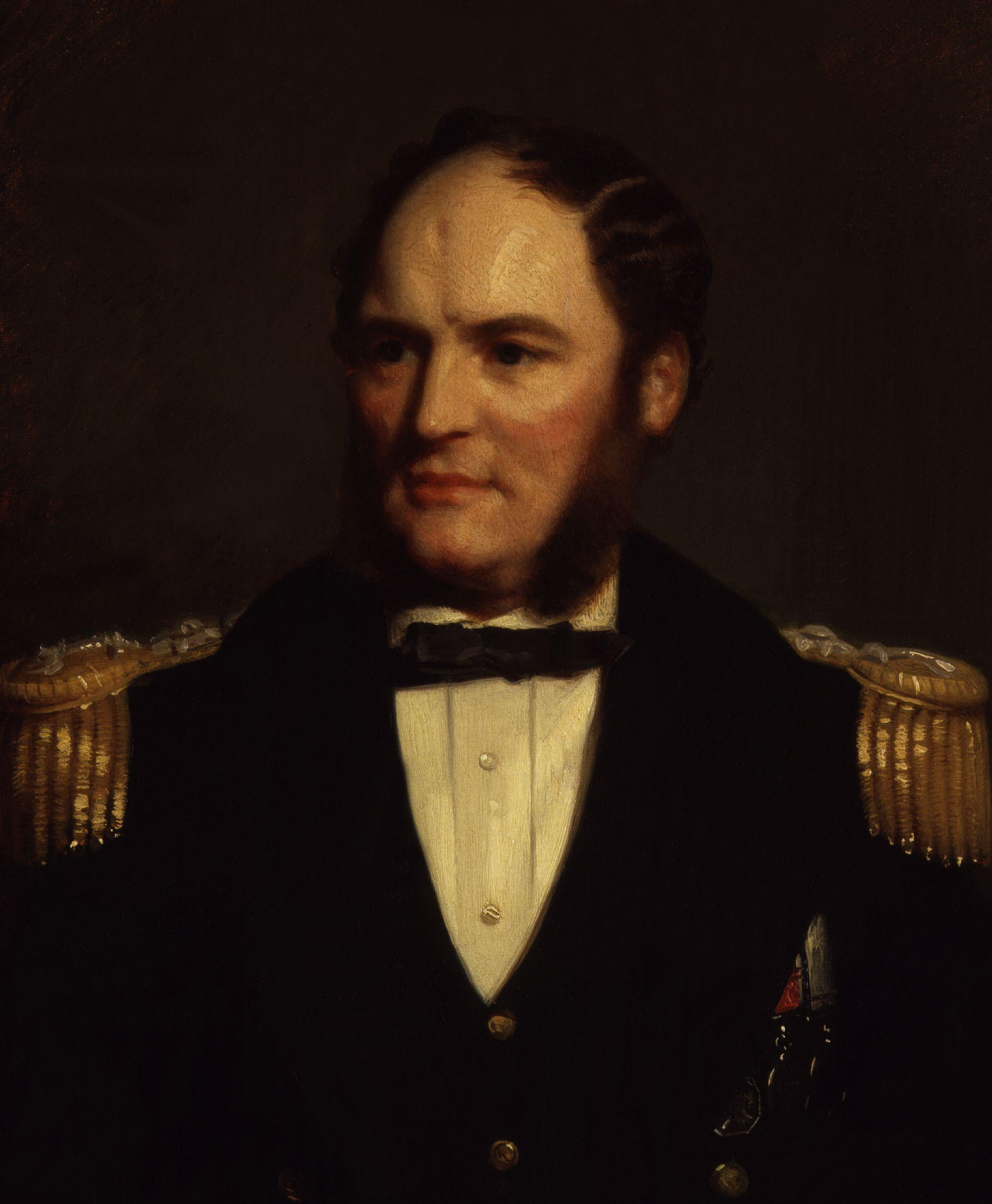 Rochfort Maguire, Naval commander, by Stephen Pearce (died 1904). All images in this batch have been confirmed as author died before 1939 according to the official death date listed by the NPG.